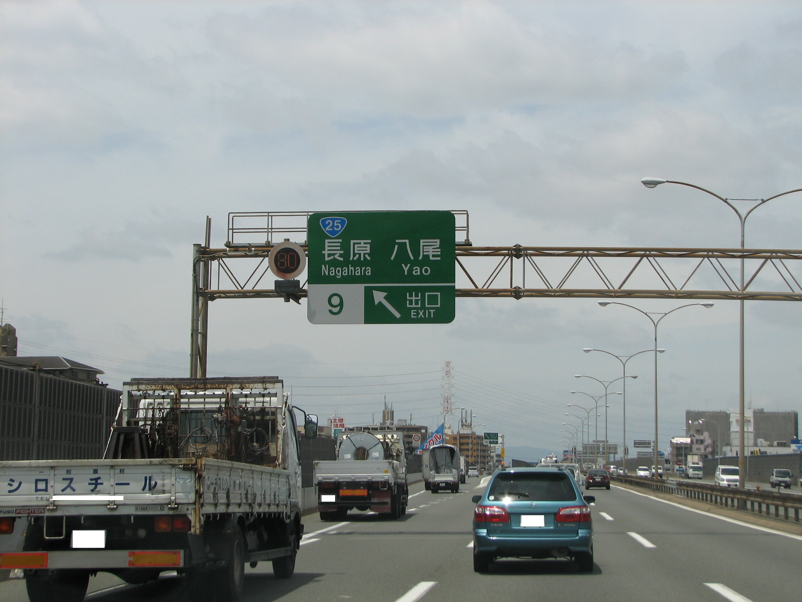 Nagahara IC